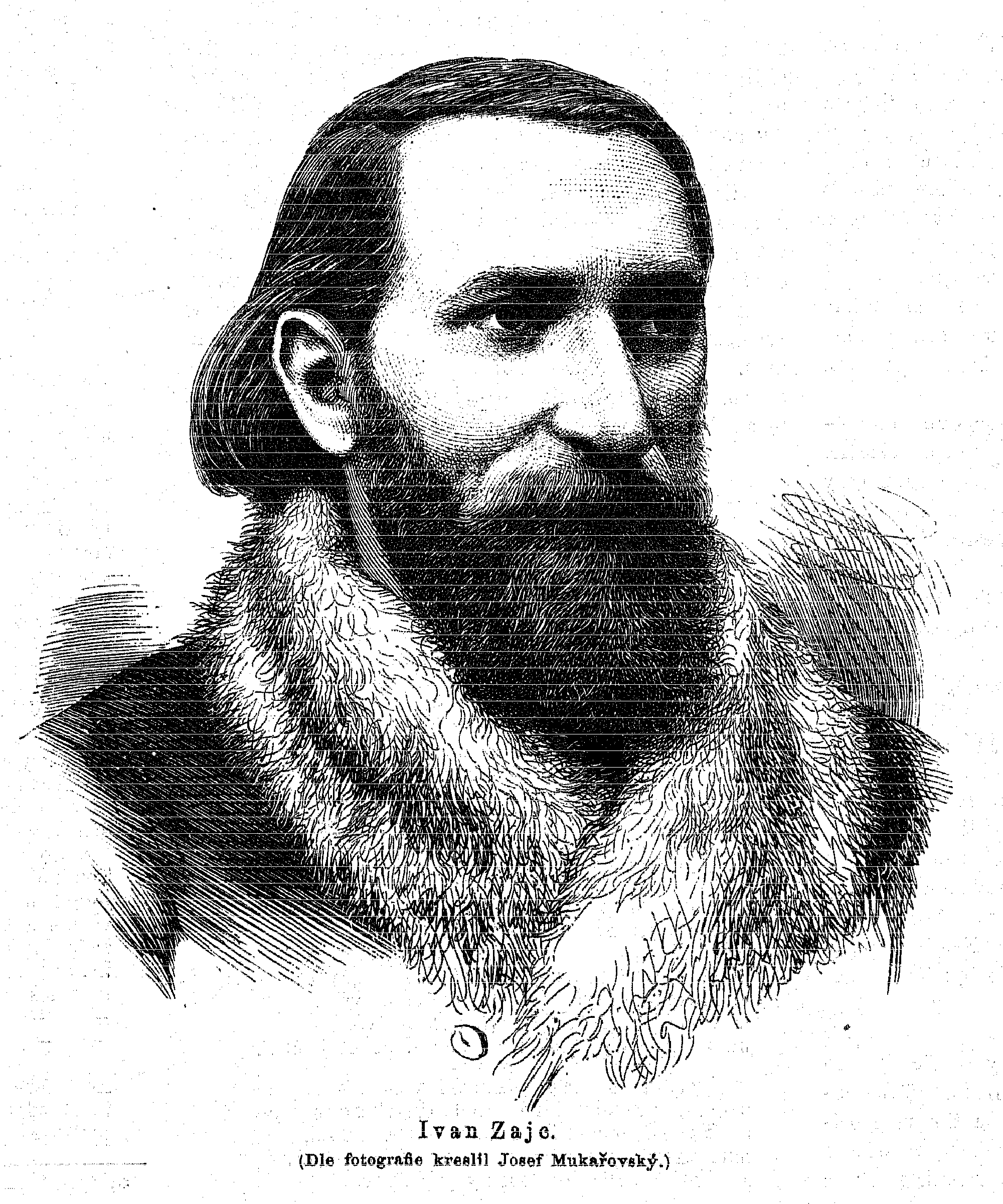 Portrait of Ivan Zajc (1832 - 1914), Croatian composer.